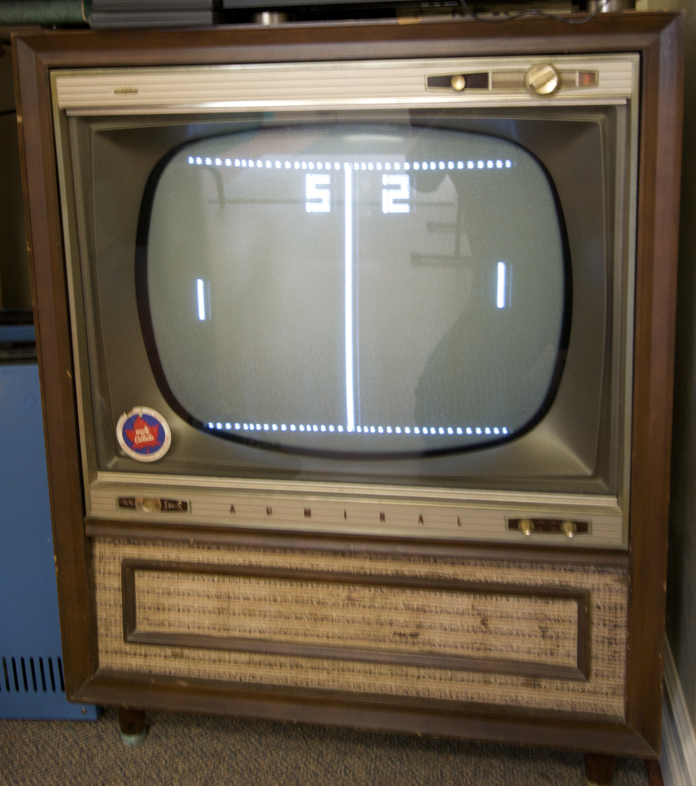 Game of Pong playing on a TV set